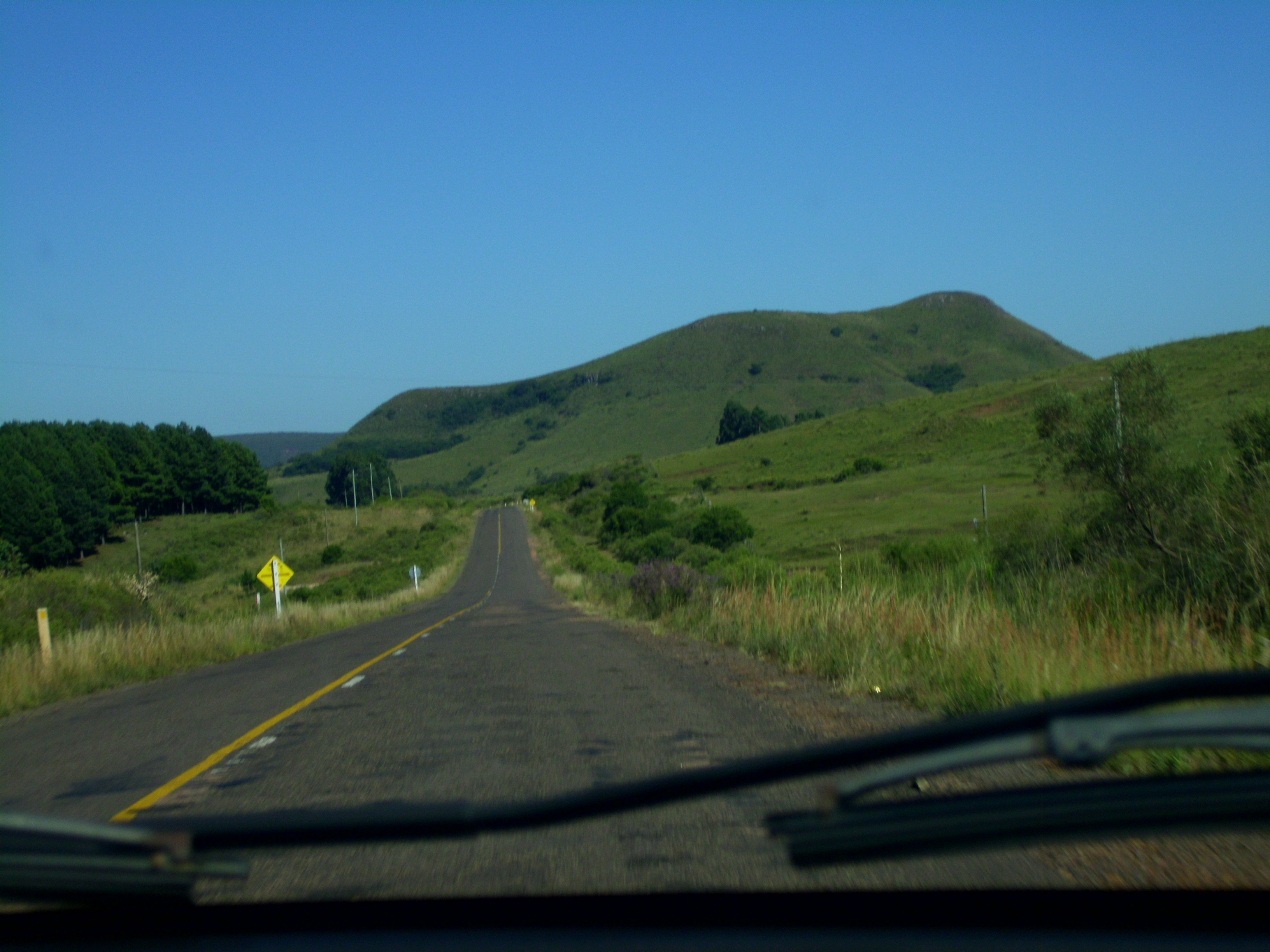 Ruta 30, cerca de Tranqueras